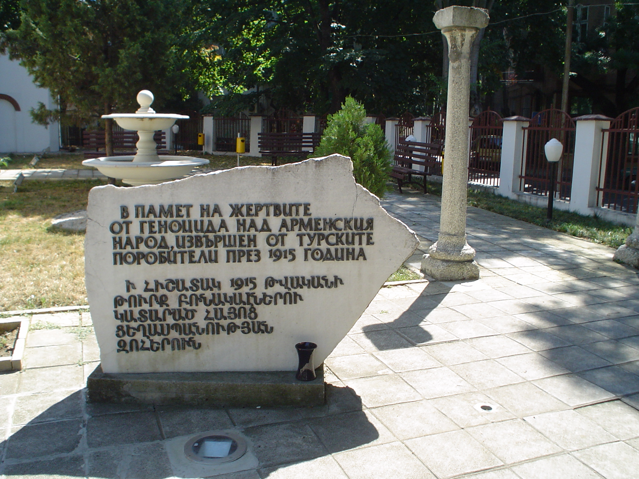 2007-07-21 Varna, Bulgaria: Memorial to the Turkish Genocide of Armenians of 1915.